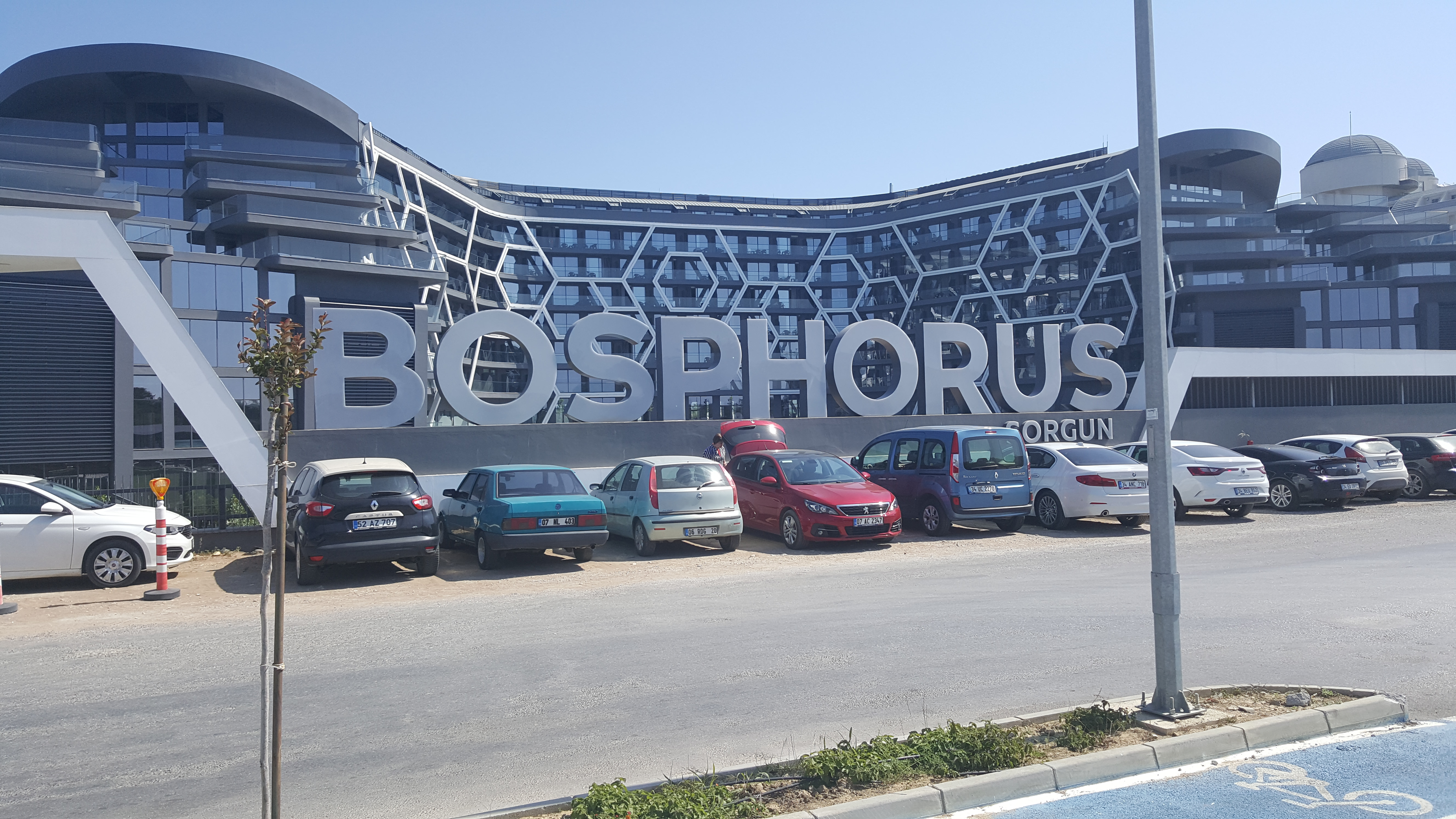 see file name (Bosphorus Sorgun Hotel)